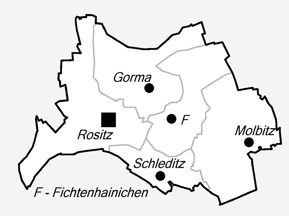 District-Maps of Rositz in Thuringia.